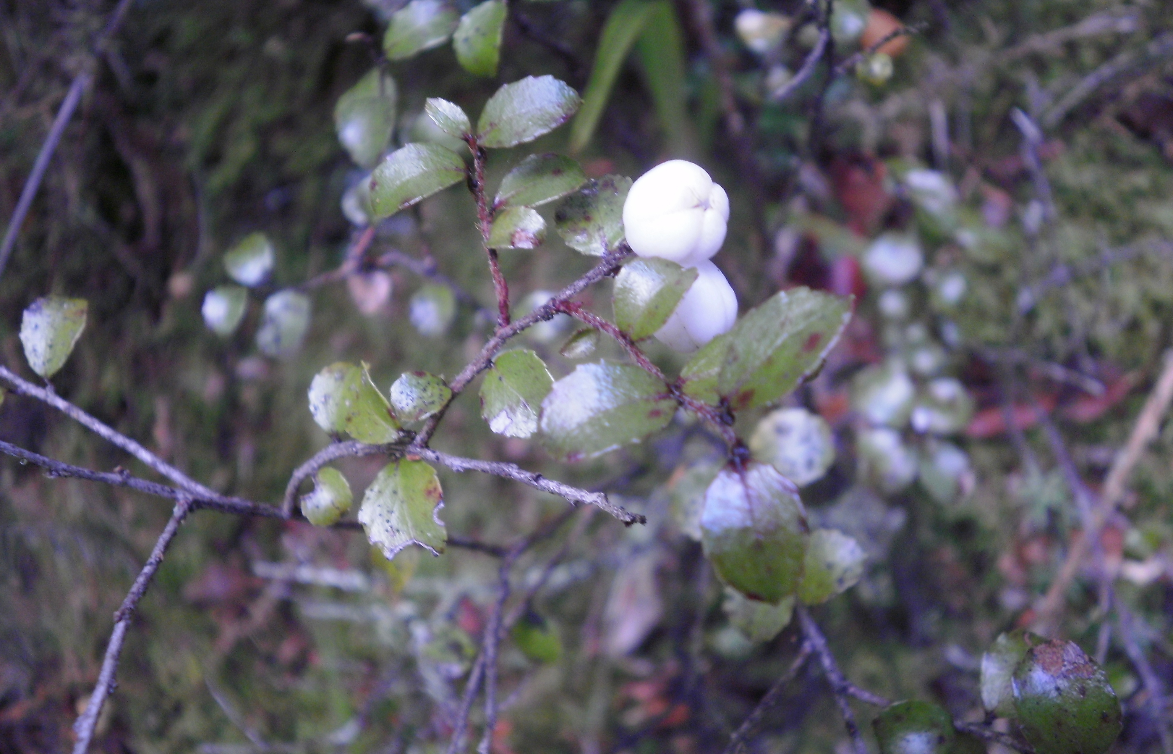 Gaultheria antipoda, bush snowberry in Ecclesfield Reserve, Upper Hutt, New Zealand.